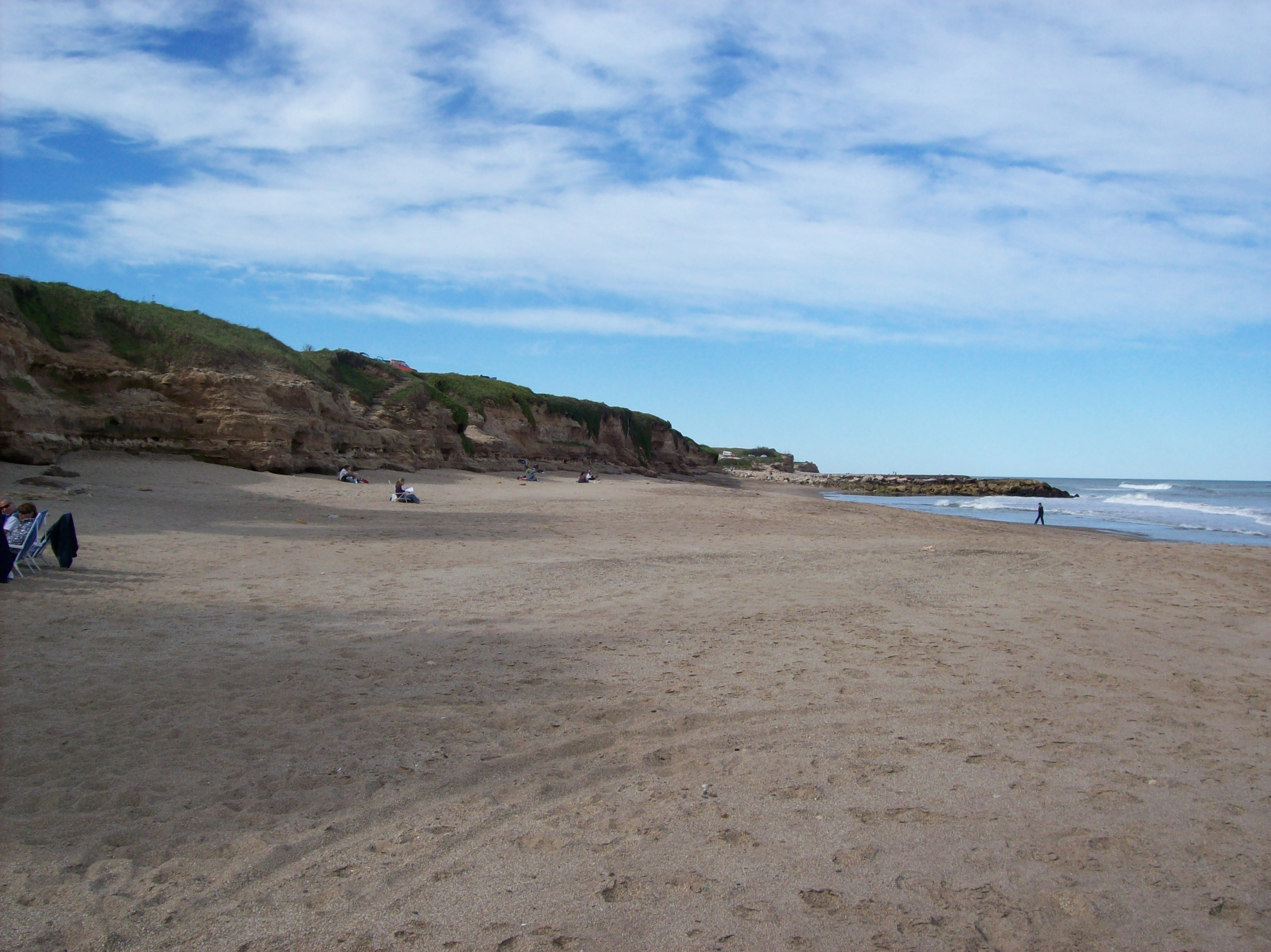 Beach of Playa Chapadmalal, Buenos Aires Province, Argentina.